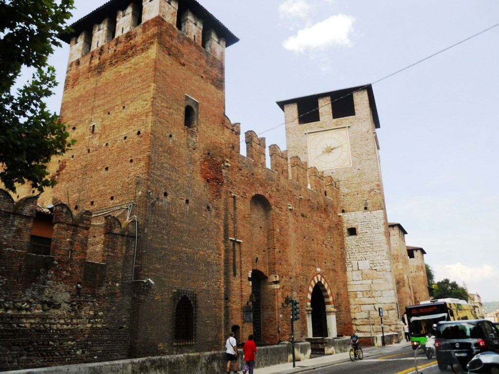 Verona Castel Vecchio